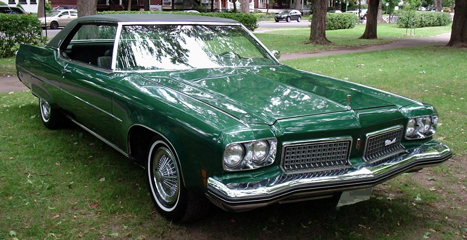 Oldsmobile 98 photographed in Montreal, Quebec, Canada at Déjuner sur l'herbe 2010.